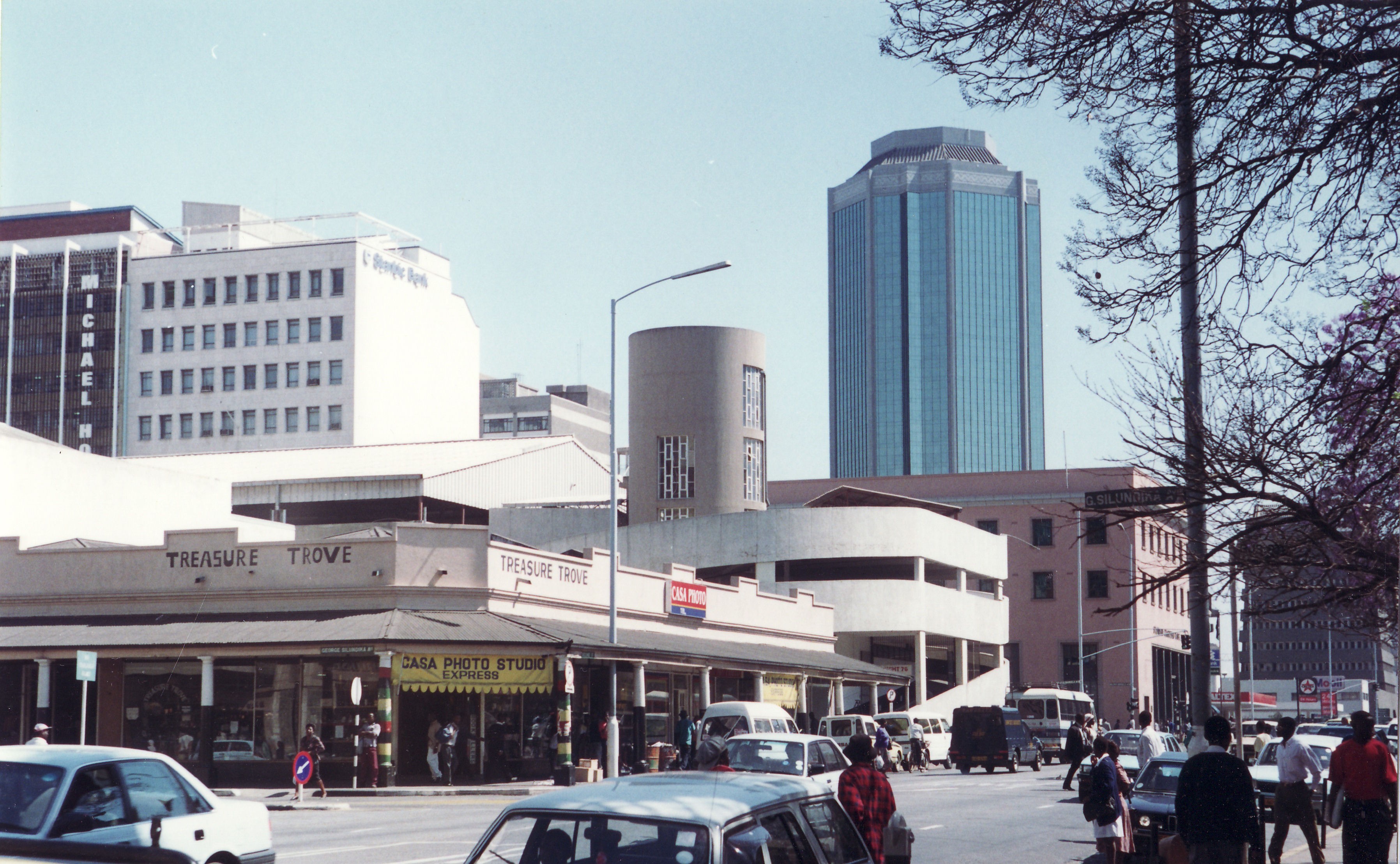 Africa Unity Square, Harare, 1997